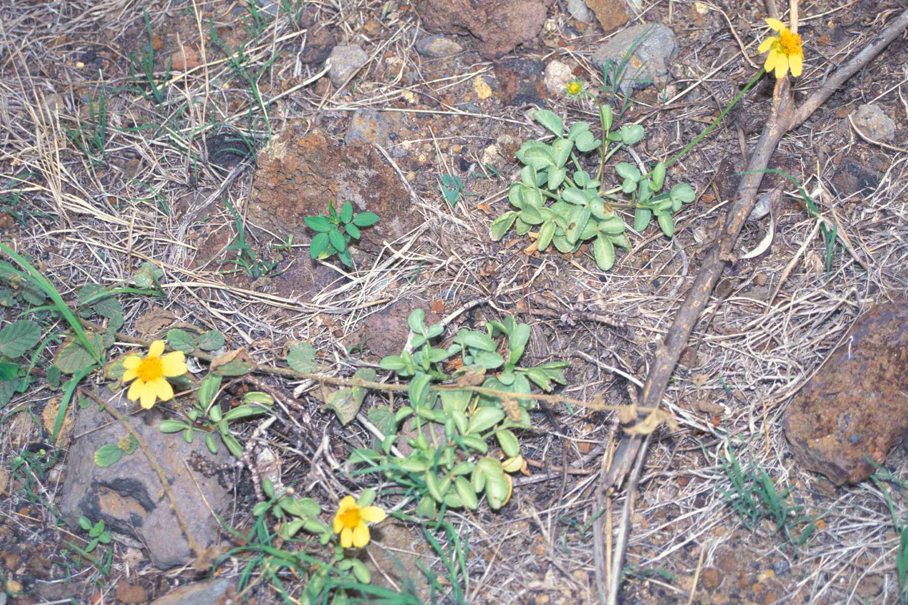 Bidens mauiensis (habit). Location: Maui, Manawainui